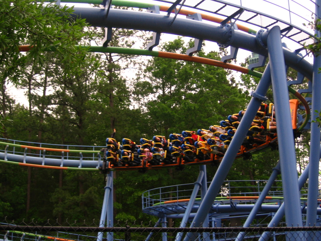 A train on the TOGO Stand-up roller coaster Shockwave at Kings Dominion, Doswell, VA traversing the double-helix element.